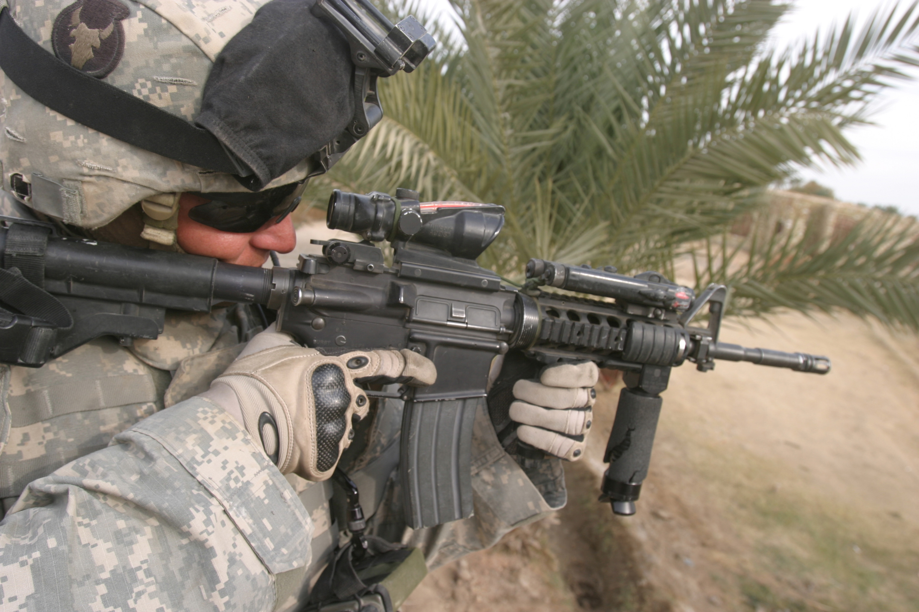 AL NAUMYAH, Iraq - SGT Jonathan Goldstein with 1st Platoon, Bravo Co, 2nd Battalion, 136 Infantry Regiment (2-136) surveys the area in Al Naumyah, Al Anbar Province, Iraq on December 15th, 2006 during operation Sledgehammer. The 2-136 of the 1st Brigade Combat Team, 34th "Red Bull" Infantry Division is deployed in support of Operation Iraqi Freedom in the al Anbar Province of Iraq (MNF-W) to develop the Iraqi Security Forces, facilitate the development of official rule of law through democratic government reforms, and continue the development of a market based economy centered on Iraqi reconstruction.